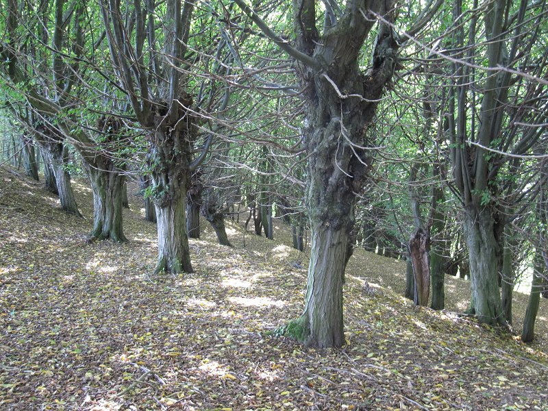 Carpinus betulus (European or common hornbeam)